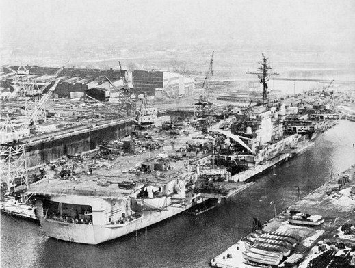 The U.S. Navy aircraft carrier USS Kitty Hawk (CVA-63) fitting out at the New York Shipbuilding Corporation, Camden, New Jersey (USA).